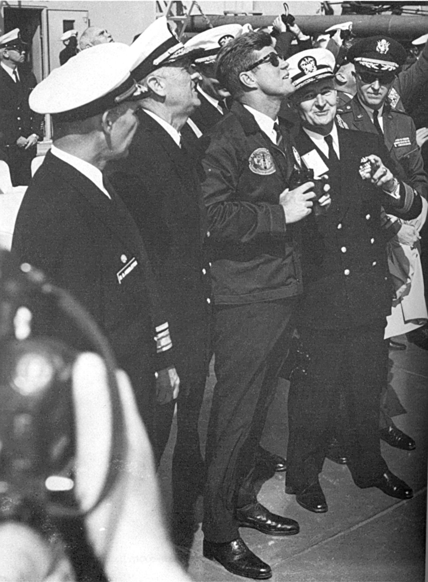 Left to right: Captain Roderick O. Middleton, Rear Admiral Vernon Long Lowrance, President John F. Kennedy, Rear Admiral Ignatius J. Galantin, and Major General Ted Clifton, aboard USNS Observation Island (E-AG-154) for an A-3 Polaris missile launch, November 16, 1963.